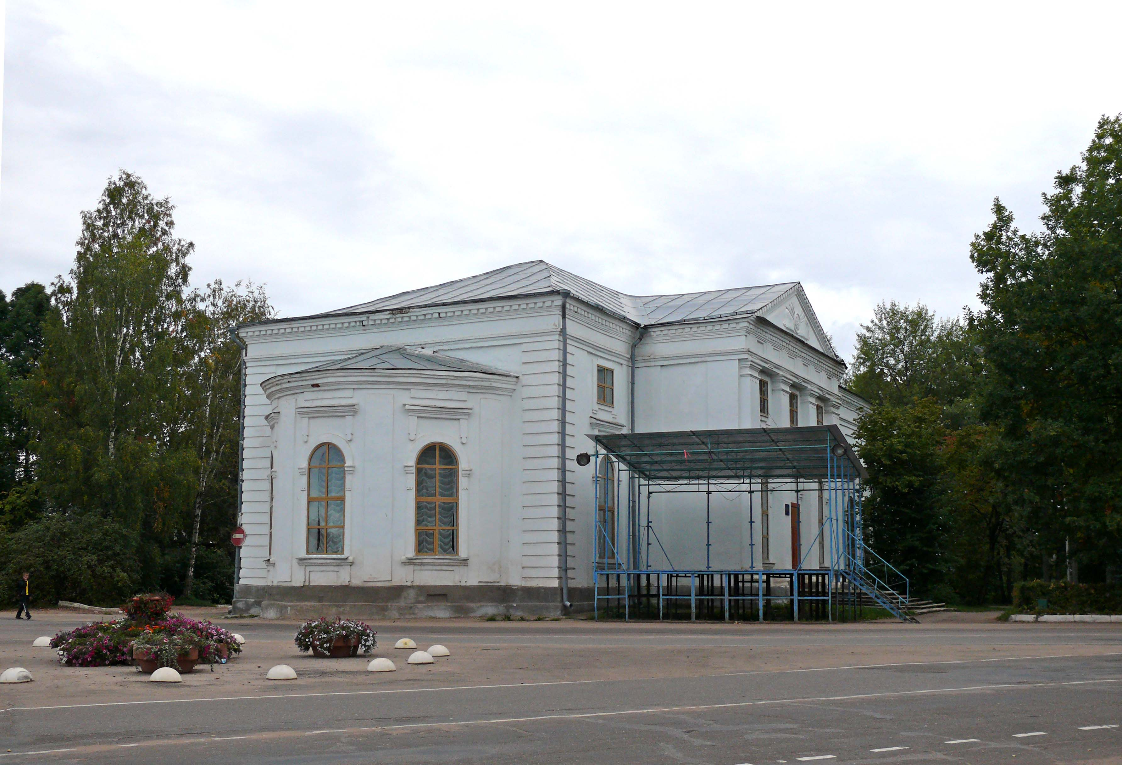 Ekaterininsky cathedral in Krestsy, Novgorodskaya oblast, Russia